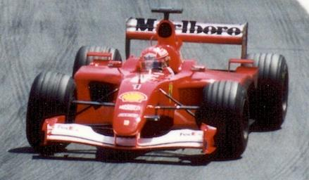 Michael Schumacher driving for Scuderia Ferrari at the 2001 Canadian Grand Prix.